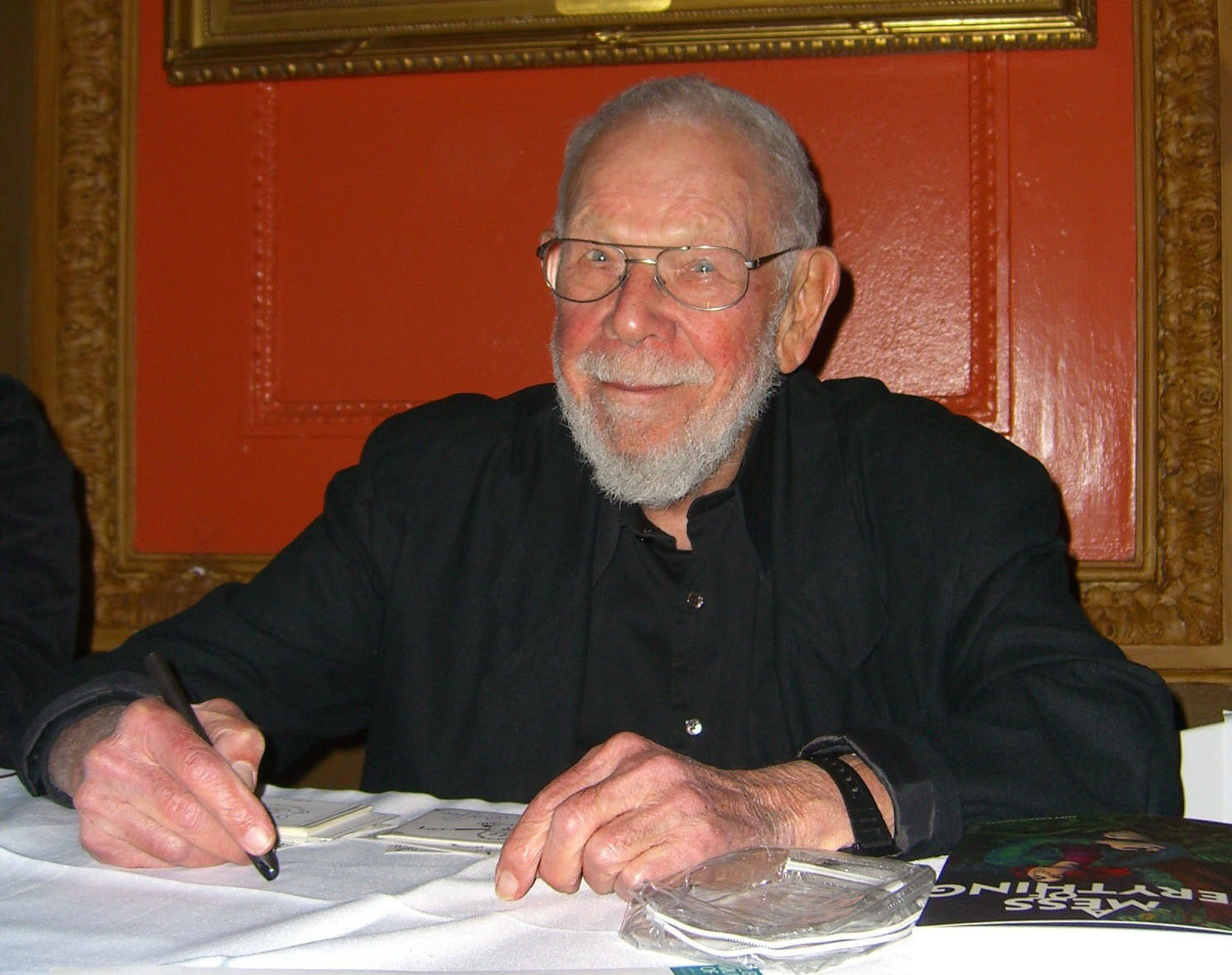 Comics creator Al Jaffee at the Comic New York symposium at Columbia University's Low Memorial Library on March 24, 2012. This photo was created by Luigi Novi. It is not in the public domain, and use of this file outside of the licensing terms is a copyright violation.